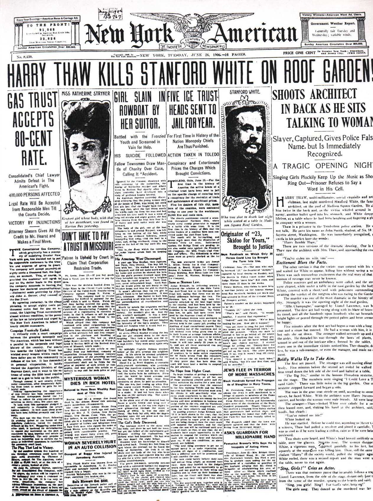 New York American, Tuesday, June 26, 1906 Other version: 150px